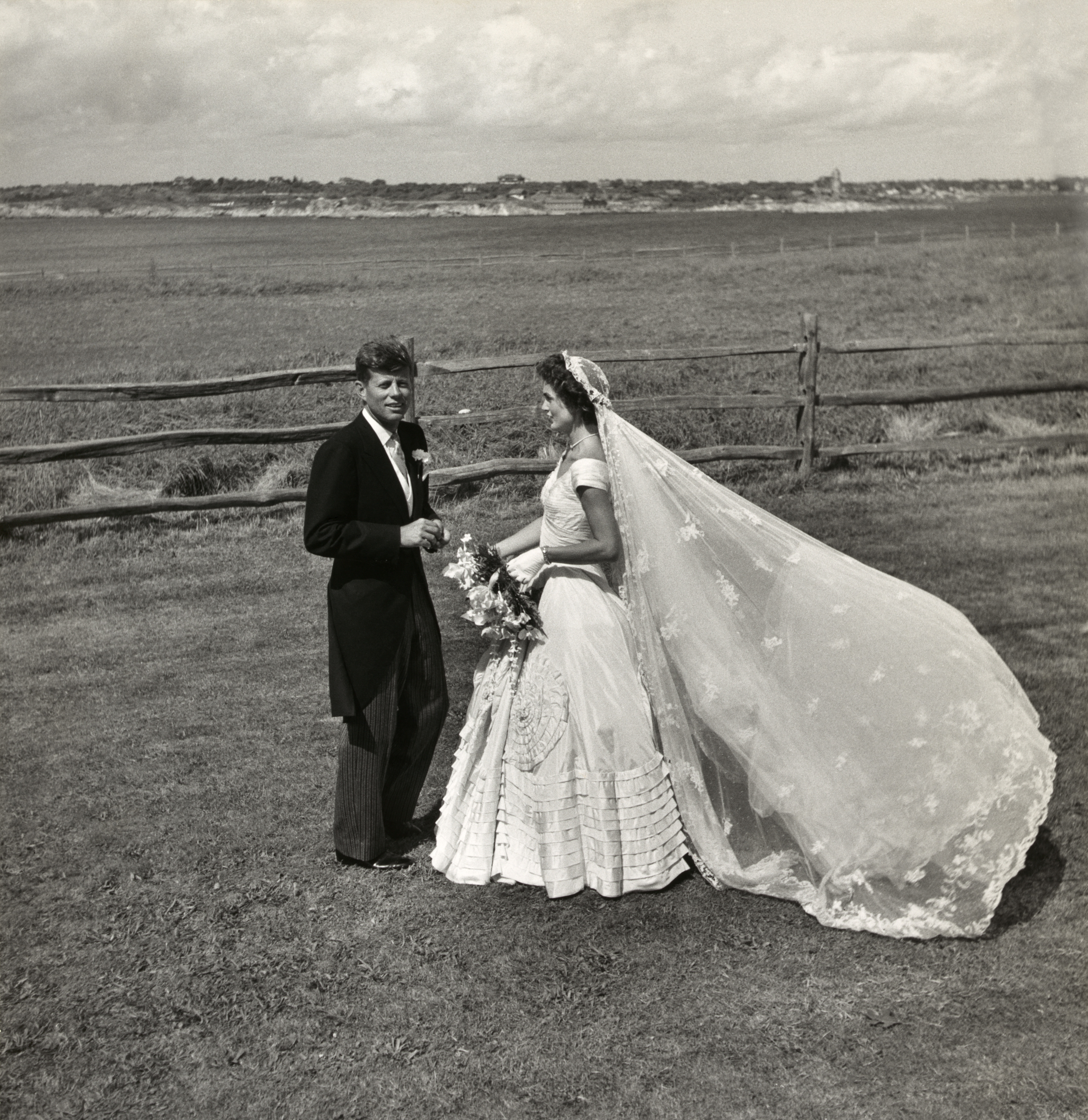 John Fitzgerald Kennedy and Jacqueline Bouvier Kennedy, in wedding attire, standing outdoors.